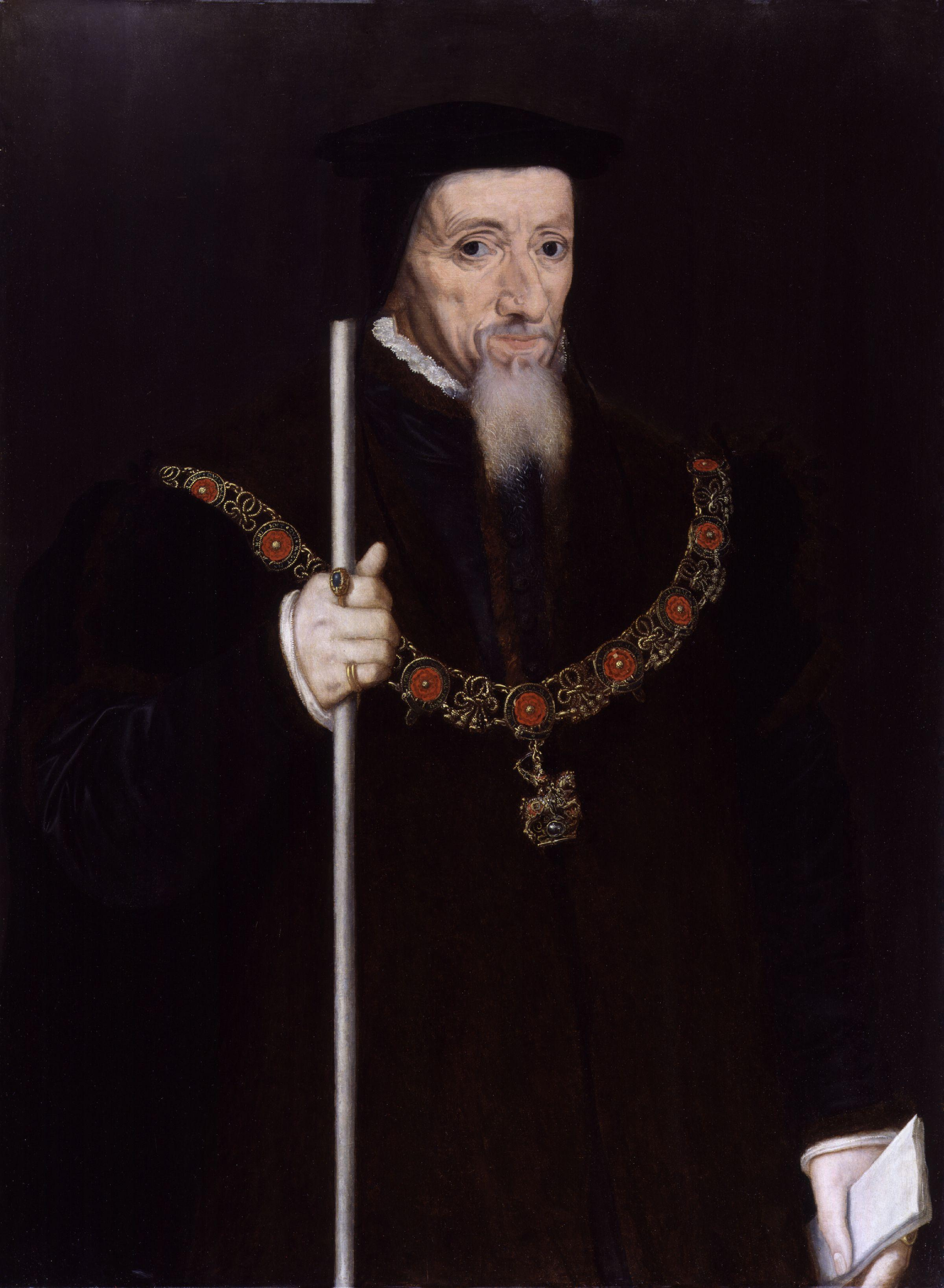 Portrait of William Paulet, 1st Marquess of Winchester (1485-1572)